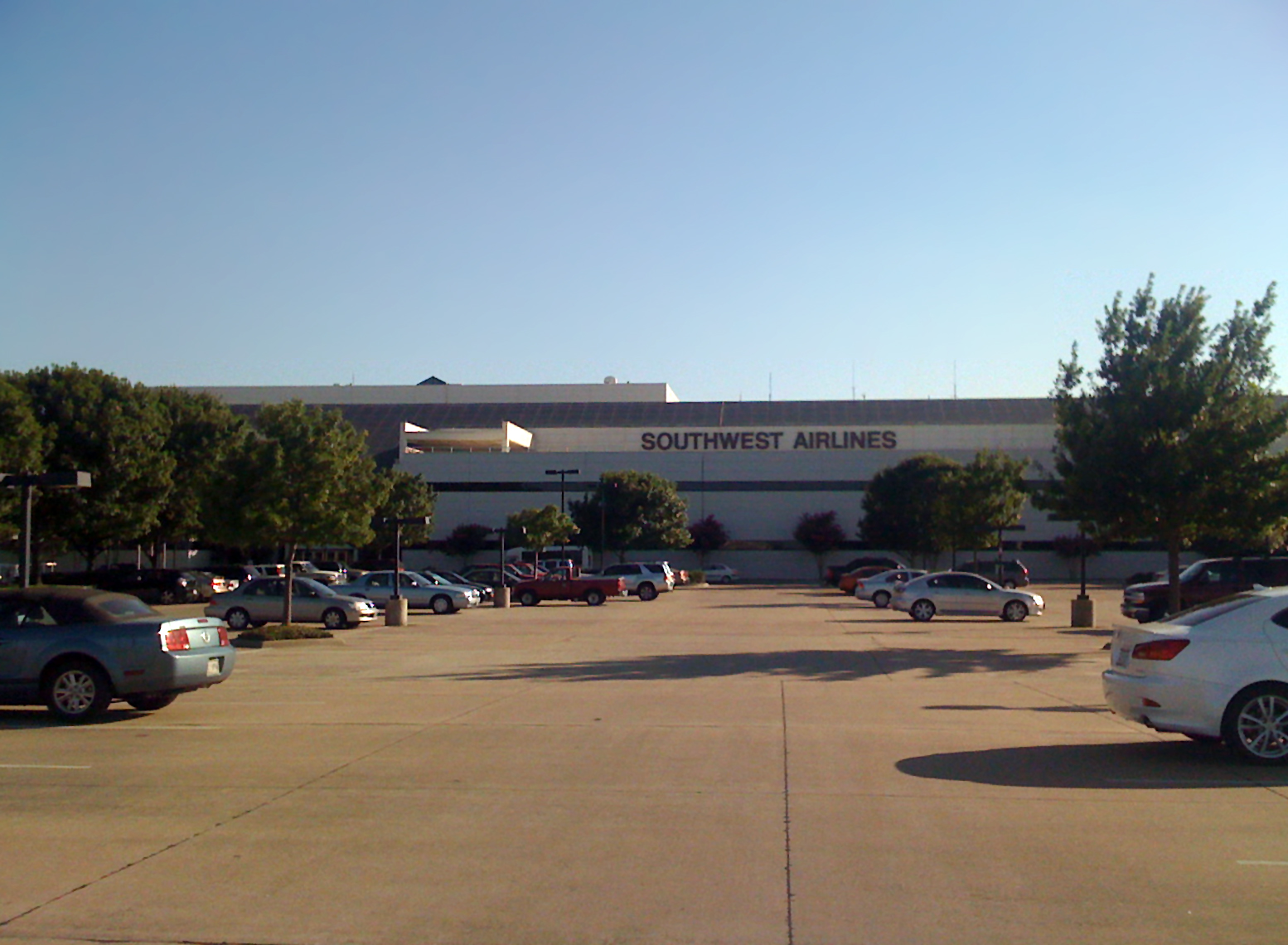 Headquarters building of Southwest Airlines, located at 2702 Love Field Dr, Dallas, TX , taken from the parking lot on the east side of the building adjacent to Love Field at approximately 7pm.